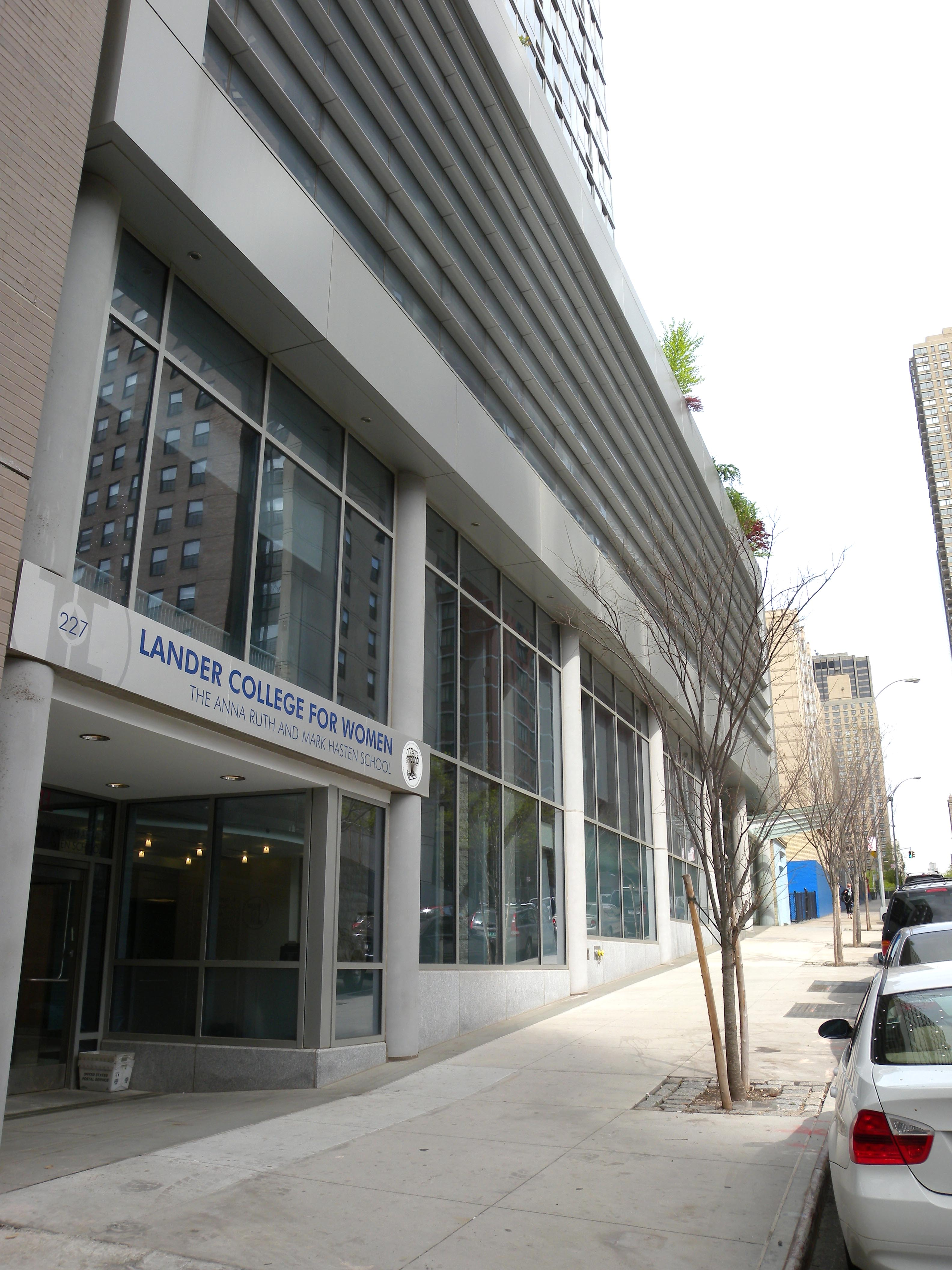 Looking northeast up West 60th Street at Lander College for Women, unit of Touro College